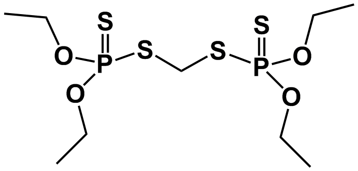 2D molecular structure of ethion, an organophosphate poison and insecticide.